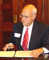 Former University of Illinois President James J. Stukel at the Technology Administration, University of Illinois – Commerce MOU Signing